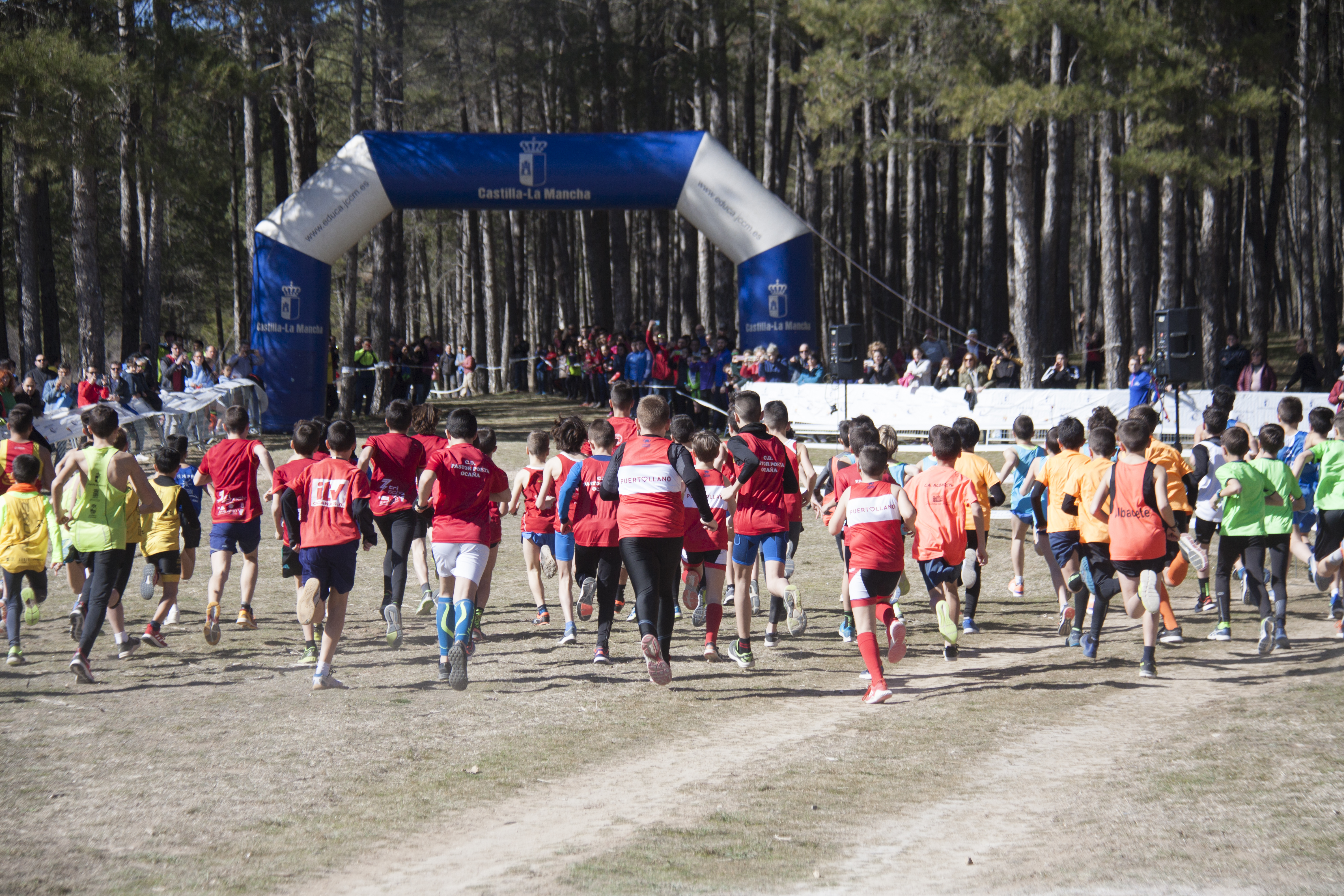 Cuenca, 17 de febrero de 2019